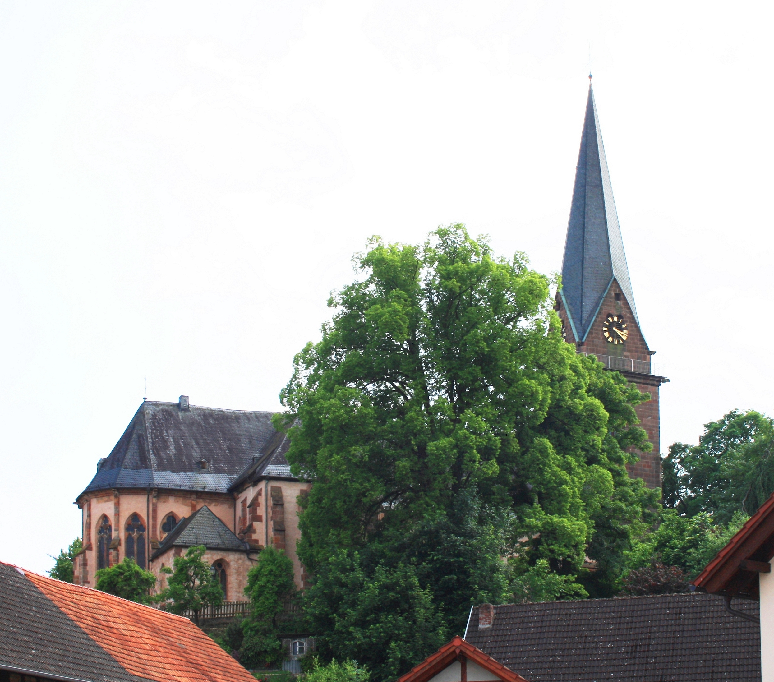 Church St. Mary in Wetter (Hessen)